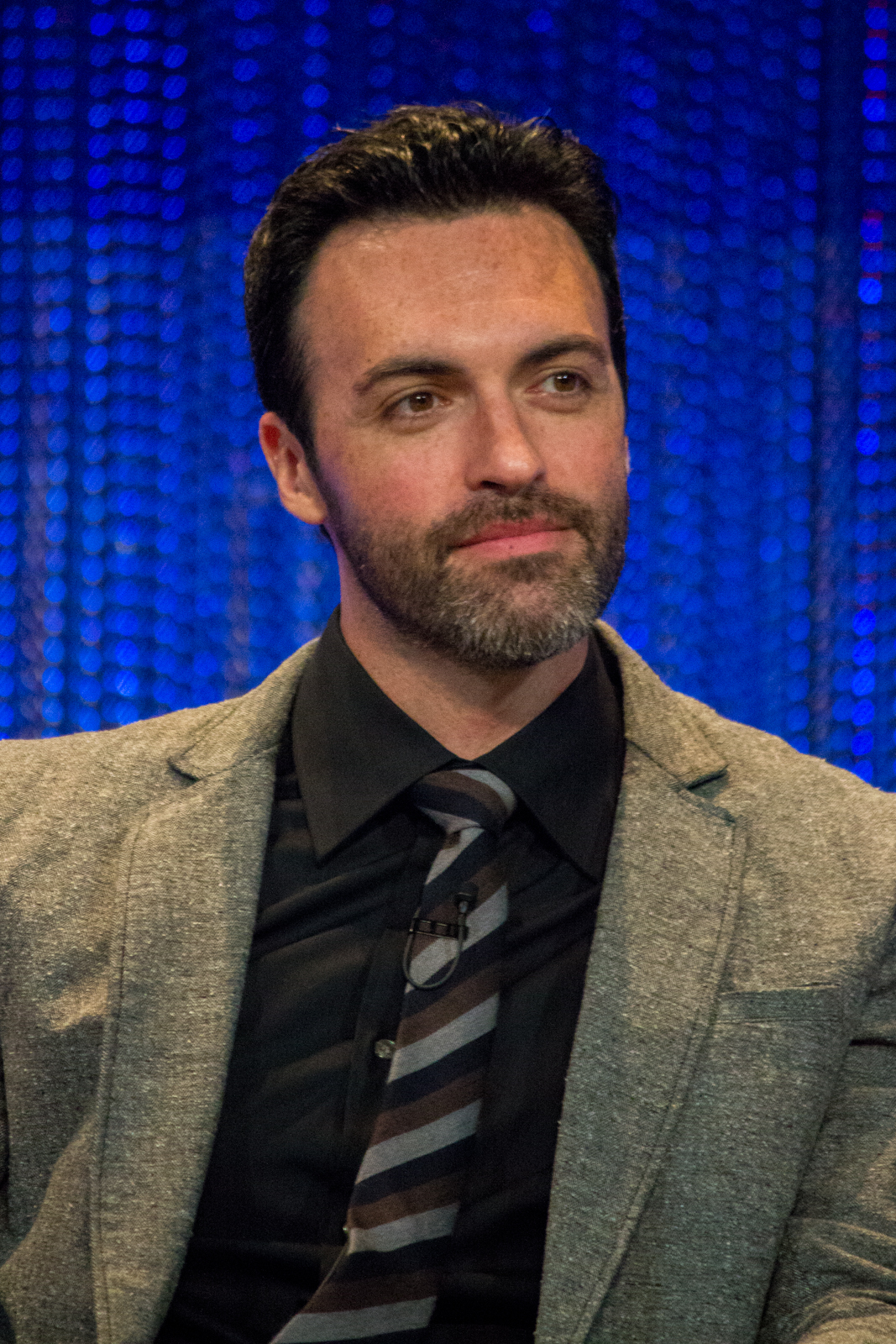 Scott at the New York PaleyFest 2014 for the TV show "Veep"